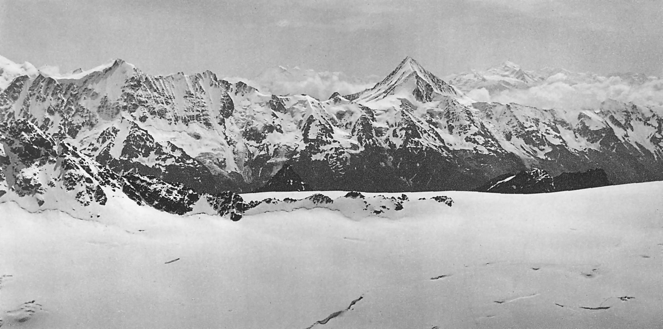 View southward from a balloon over the Petersgrat (3181m) southwards, over the Lötschental towards the Bietschhorn.